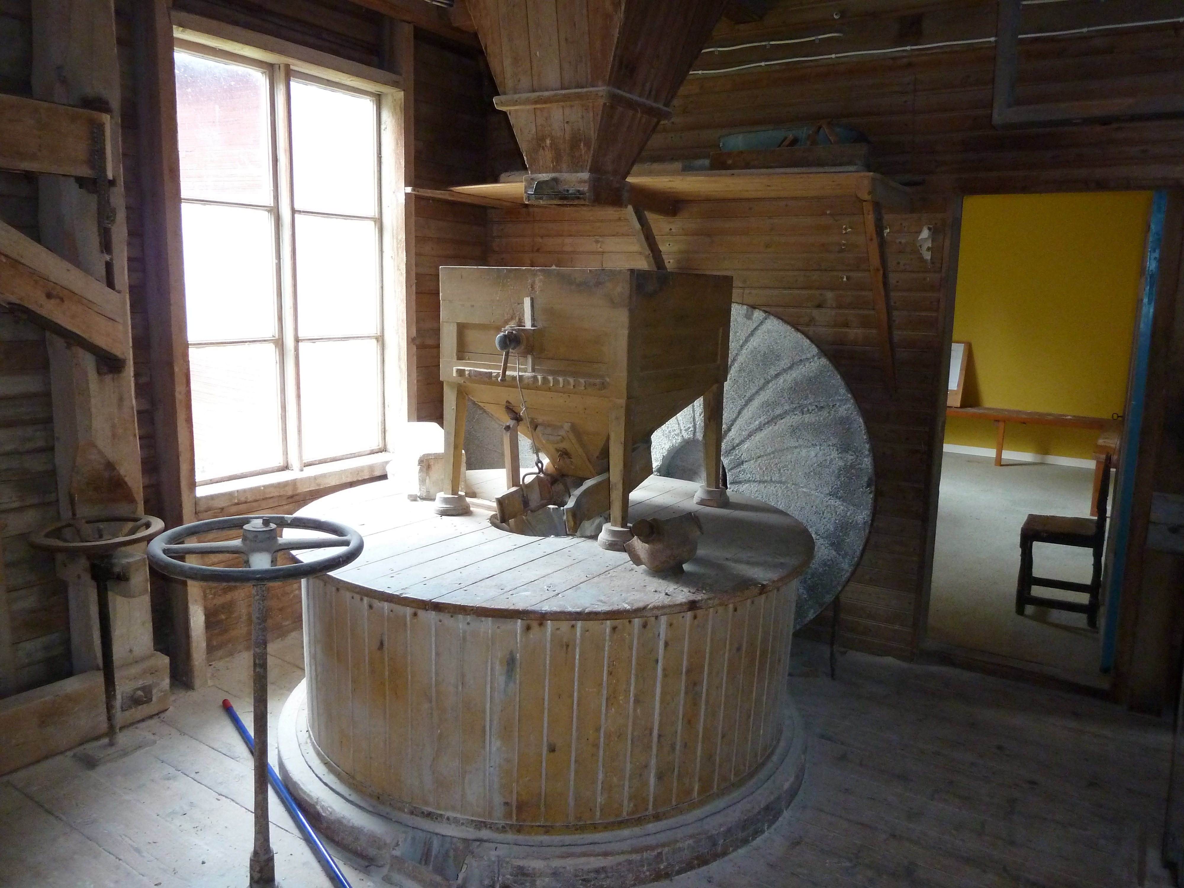 The old watermill "Sörflärke kvarn" in Sörflärke, Örnsköldsvik, Sweden.